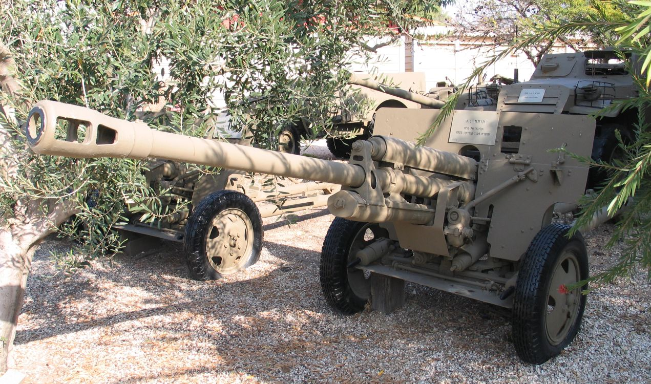 Description: ZIS-3 76 mm divisonal cannon in Batey ha-Osef Museum, Tel Aviv, Israel. 2005. Source: Photo by me, User:Bukvoed.